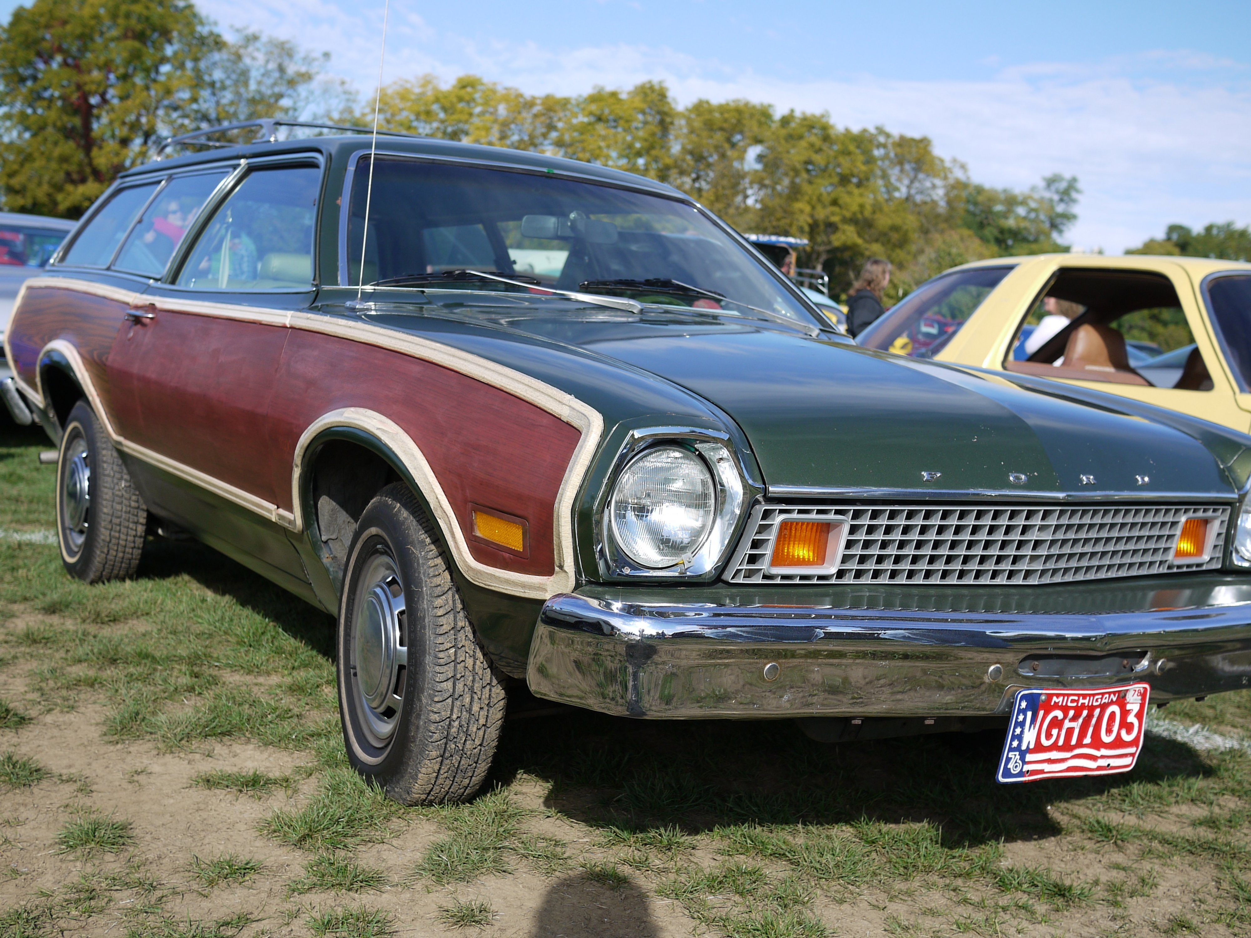 1976 Ford Pinto